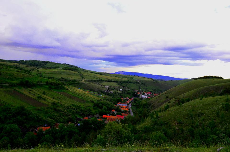 view of Eibenthal